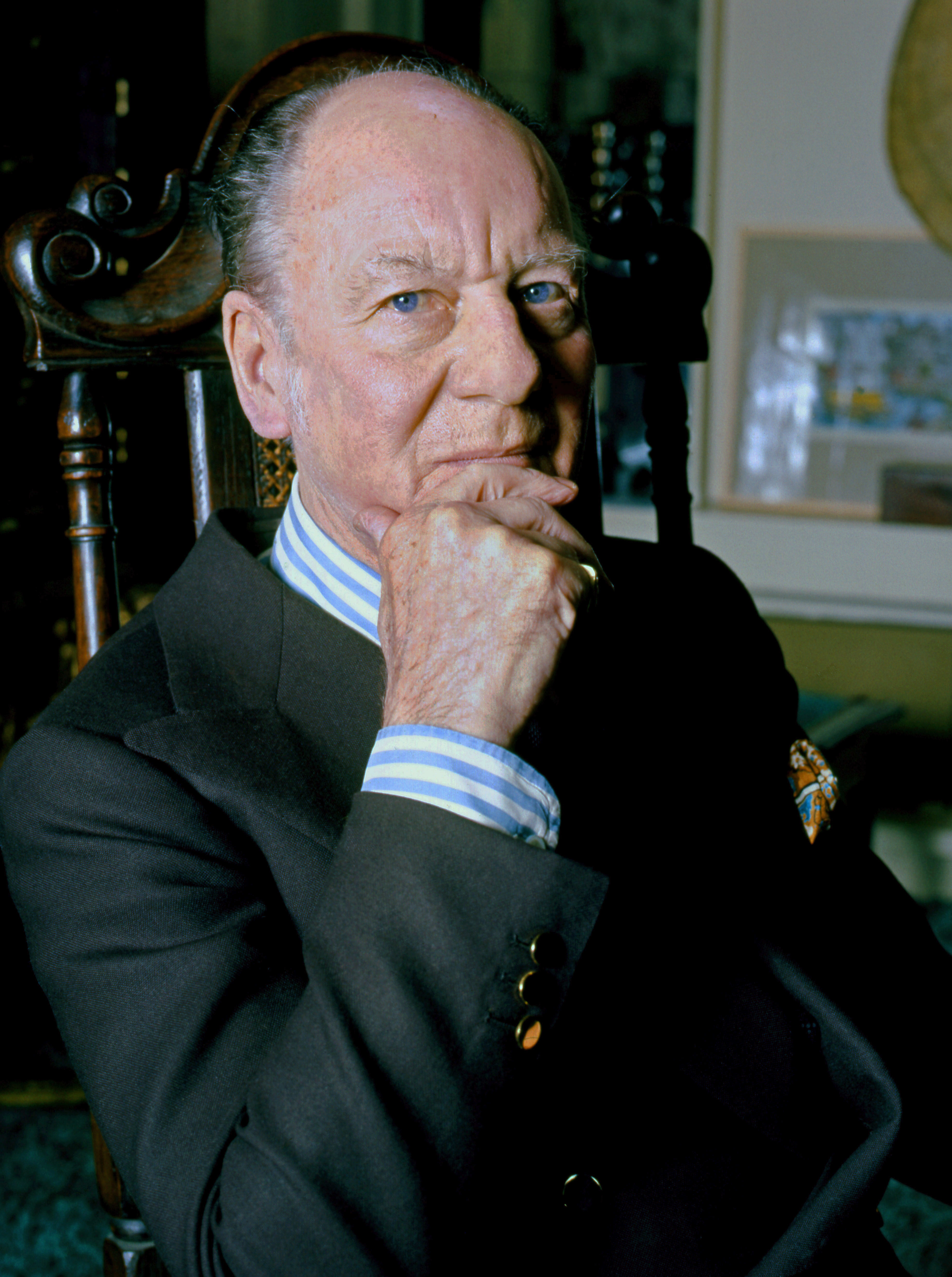 Sir John Gielgud taken in the photographer's home, London